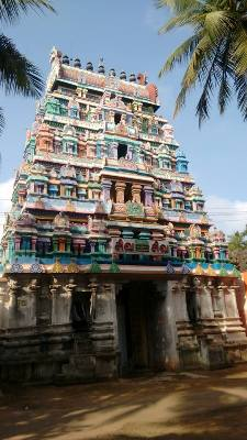 Vadakurangaduthuraidhayanitheesvarartemple வடகுரங்காடுதுறைதயாநிதீஸ்வரர்கோயில்